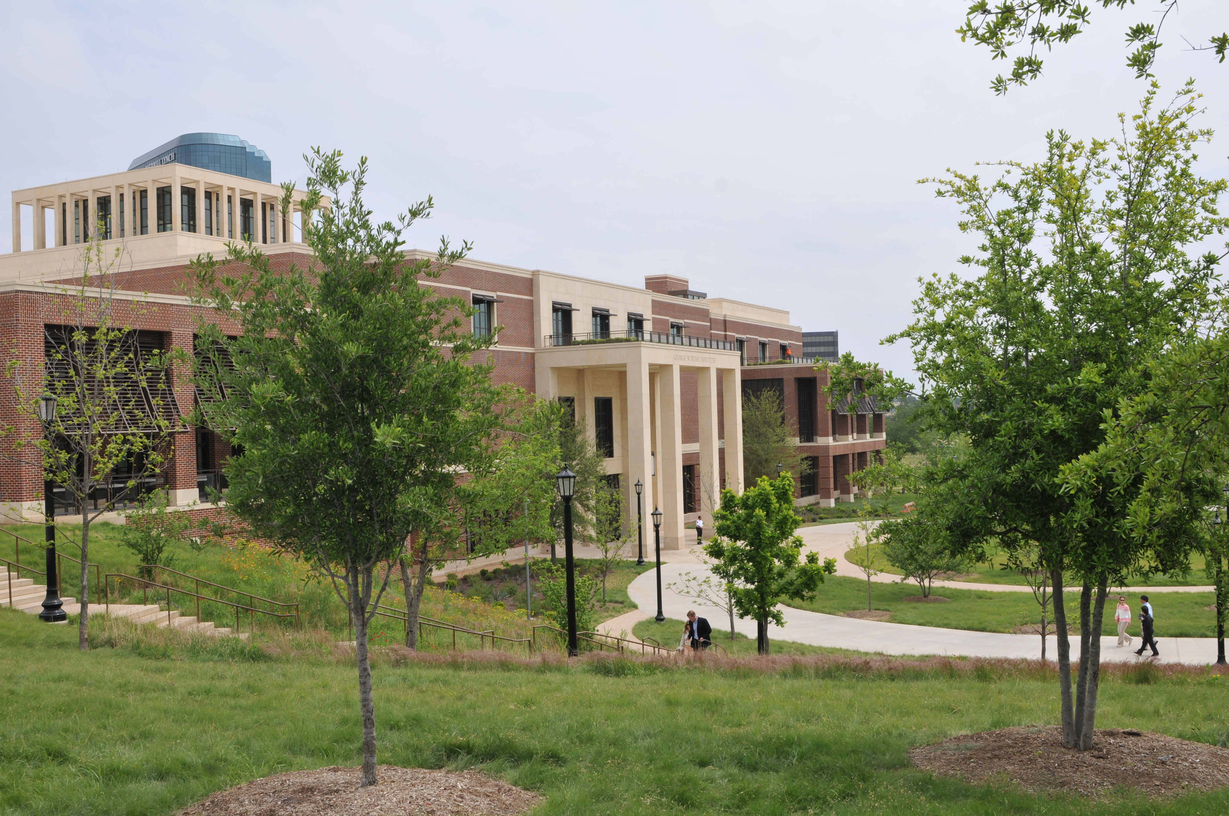 George W. Bush Presidential Center - Institute entrance